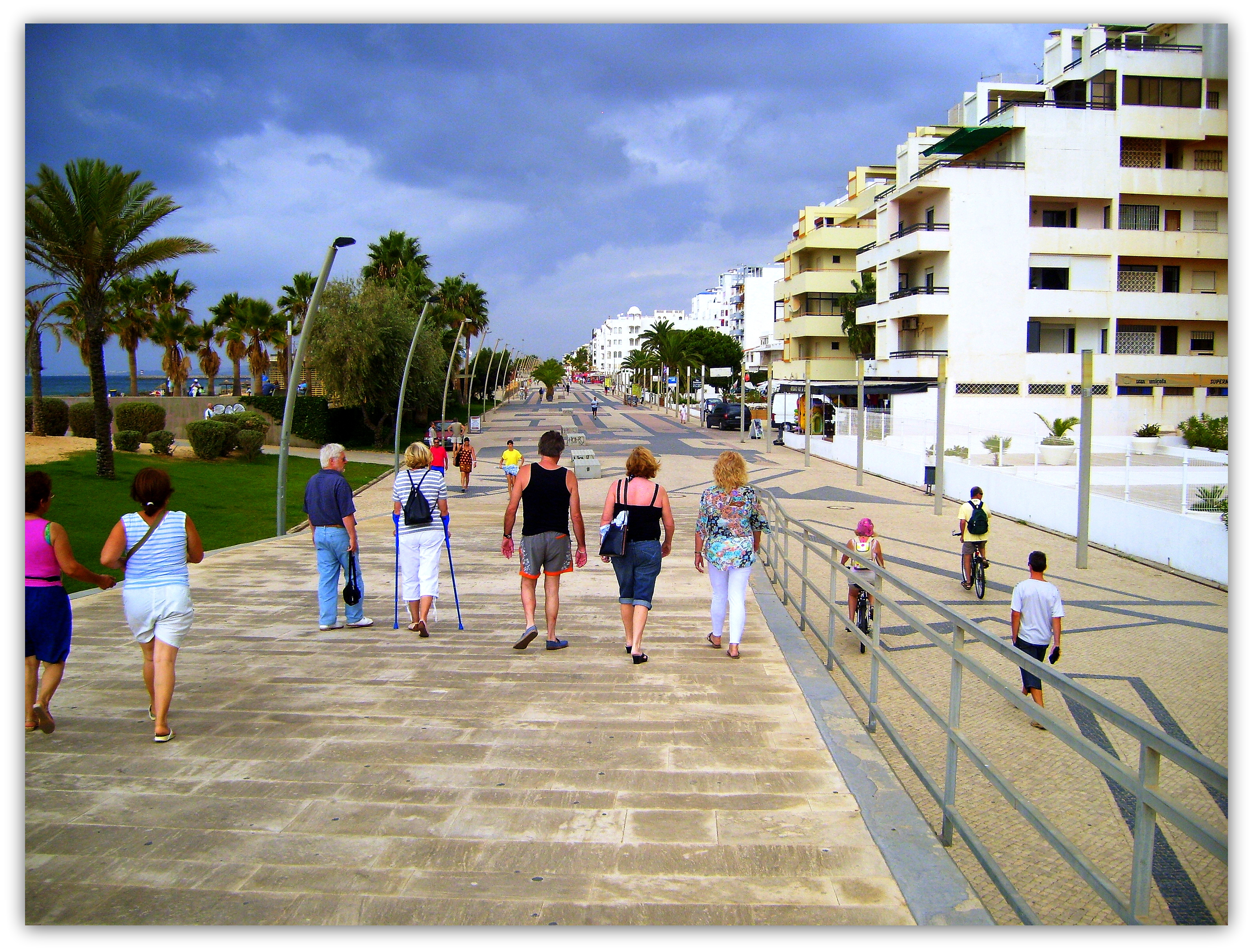 Heading towards Vilamoura in the Algarve in Portugal...